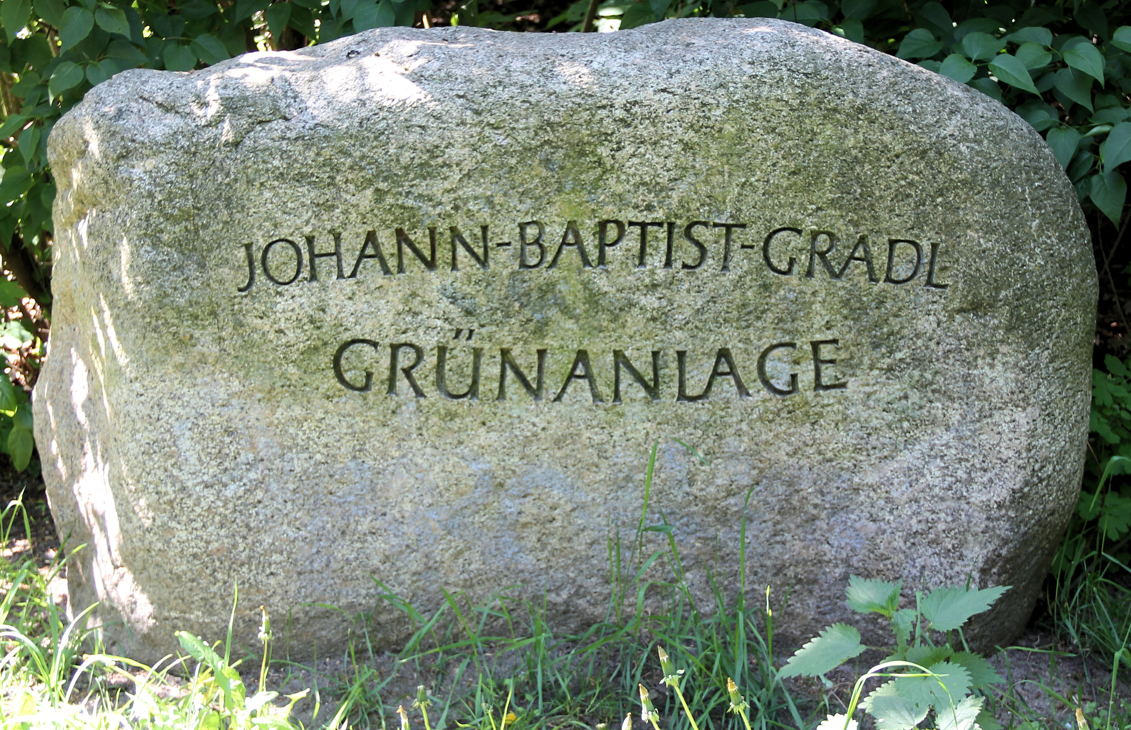 Memorial stone, Johann Baptist Gradl, Blanckertzweg 1, Berlin-Lichterfelde, Germany